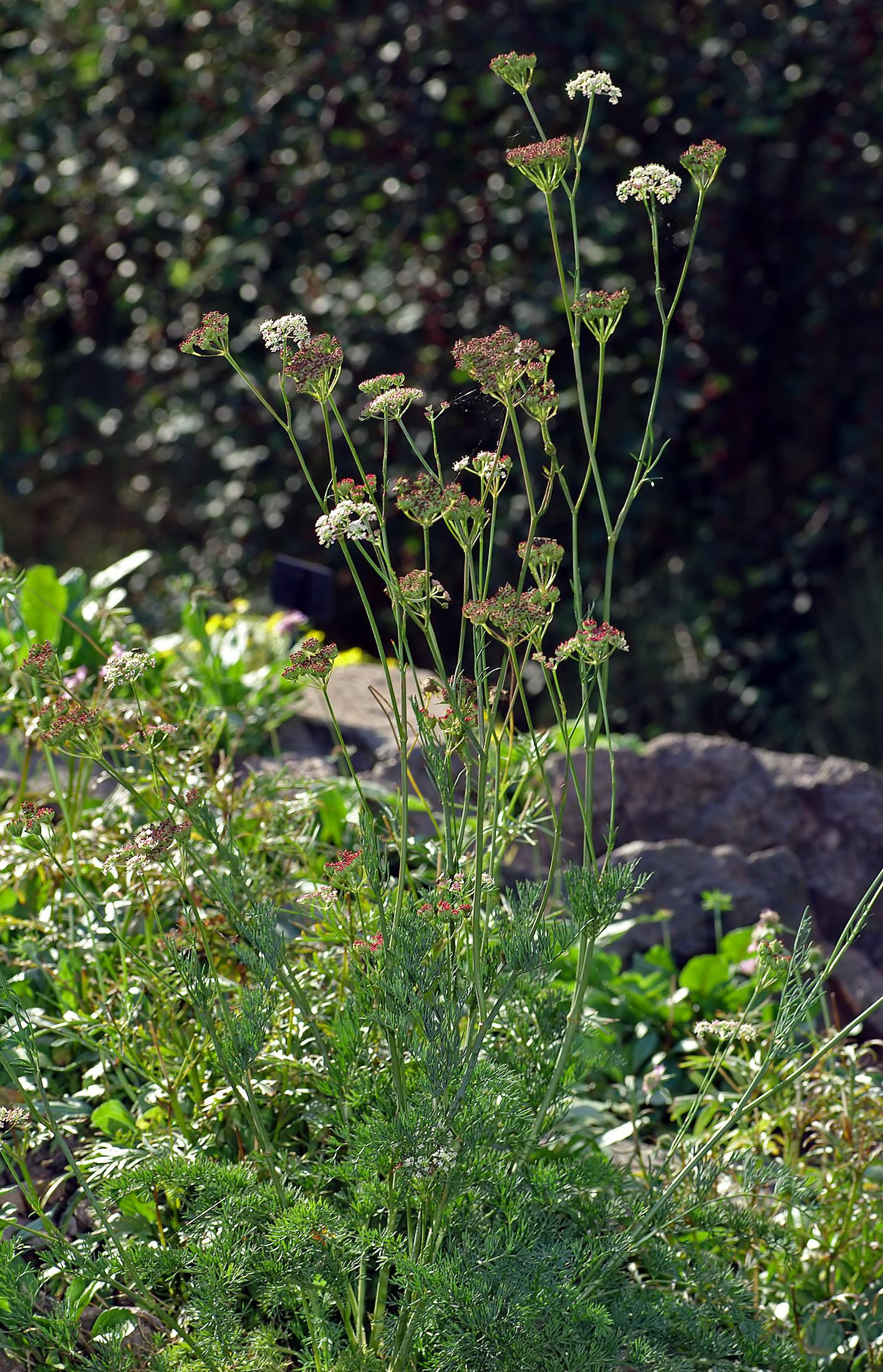 This image shows an Alpine Lovage plant (Ligusticum mutellina).